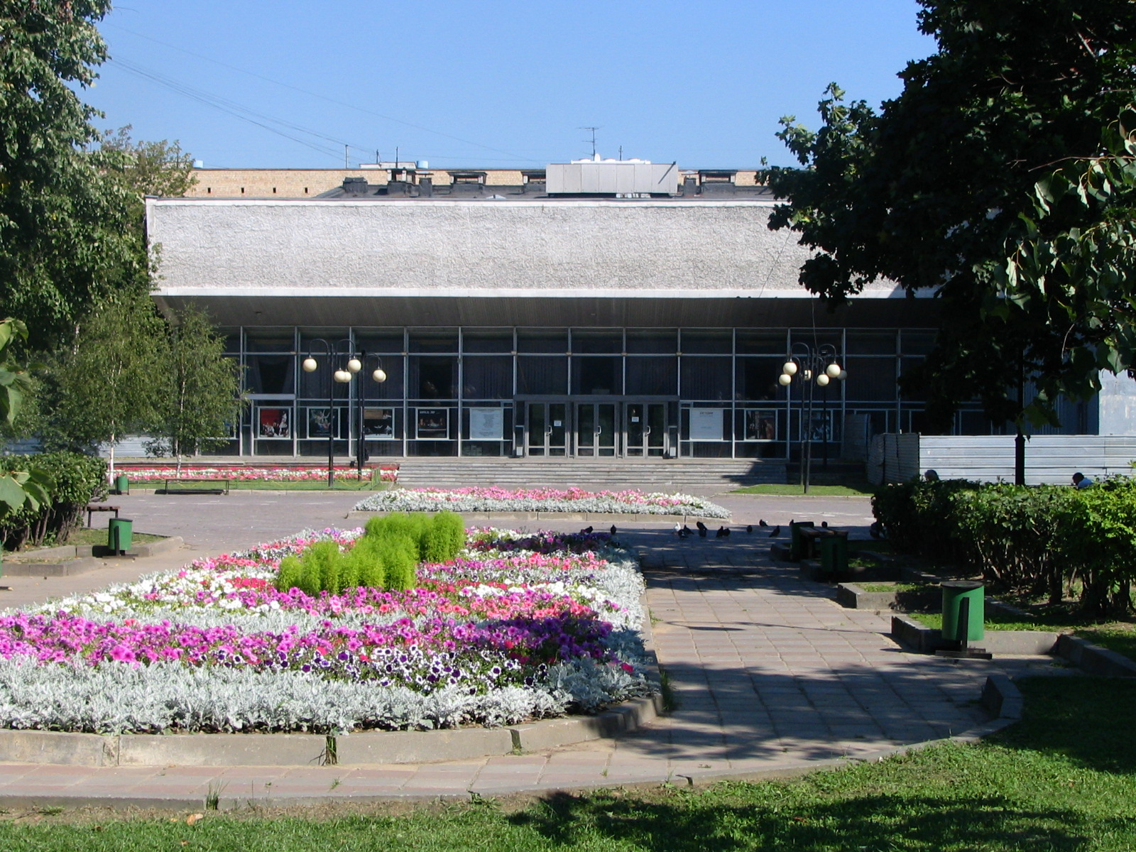 Satirikon_theatre_Moscow